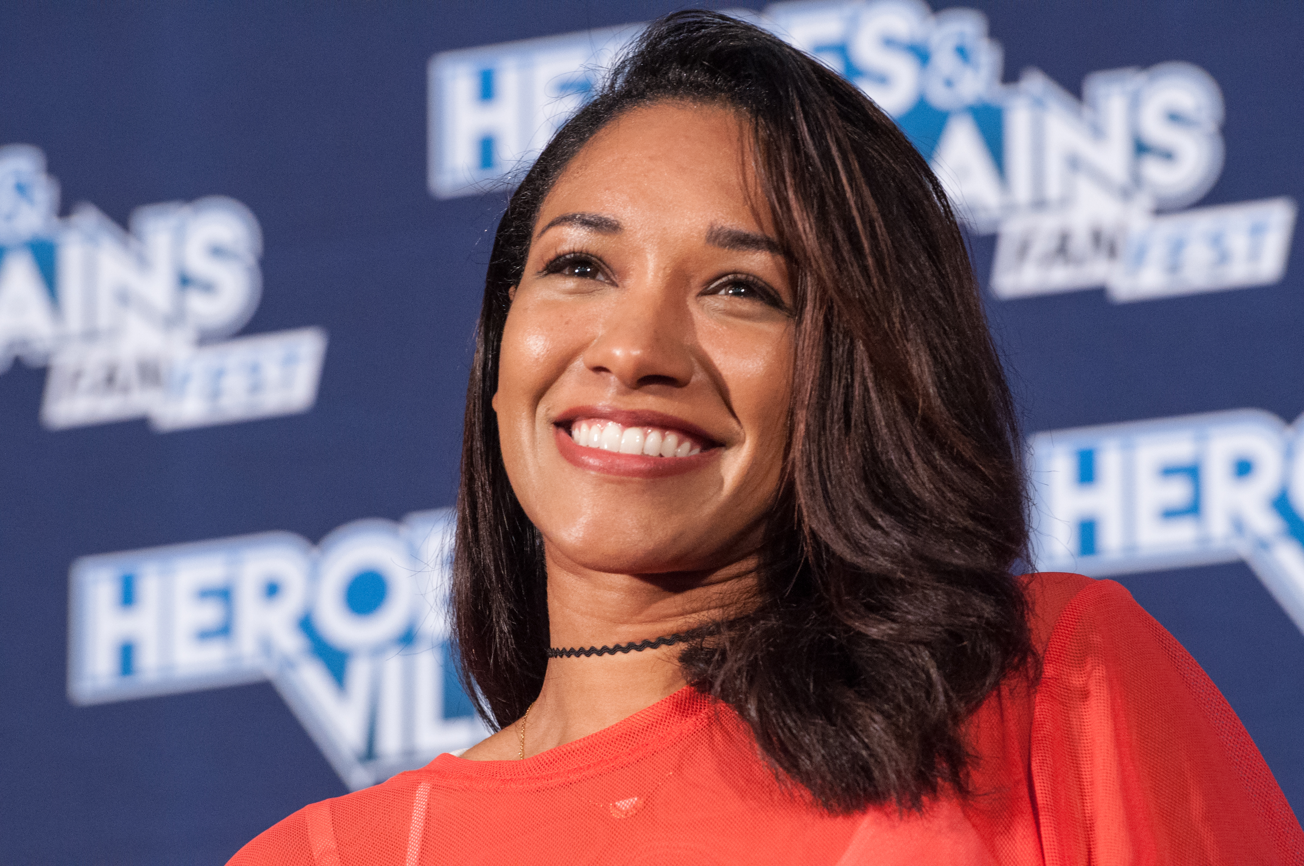 HVFFNYNJ2017LOTFlash-ALS-22